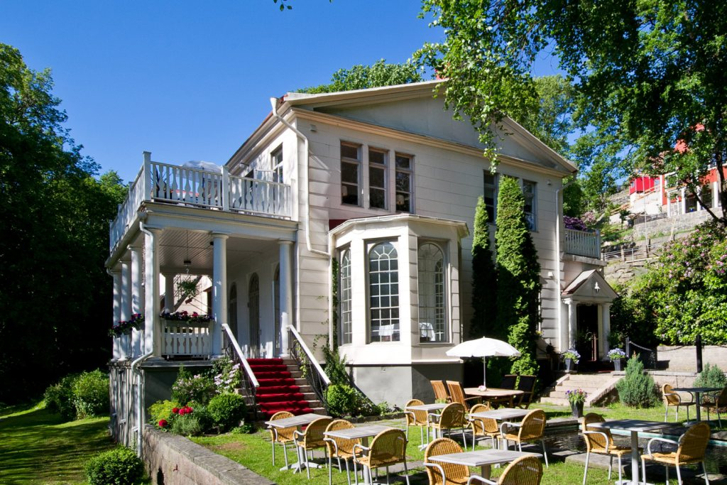 Villa Odinslund